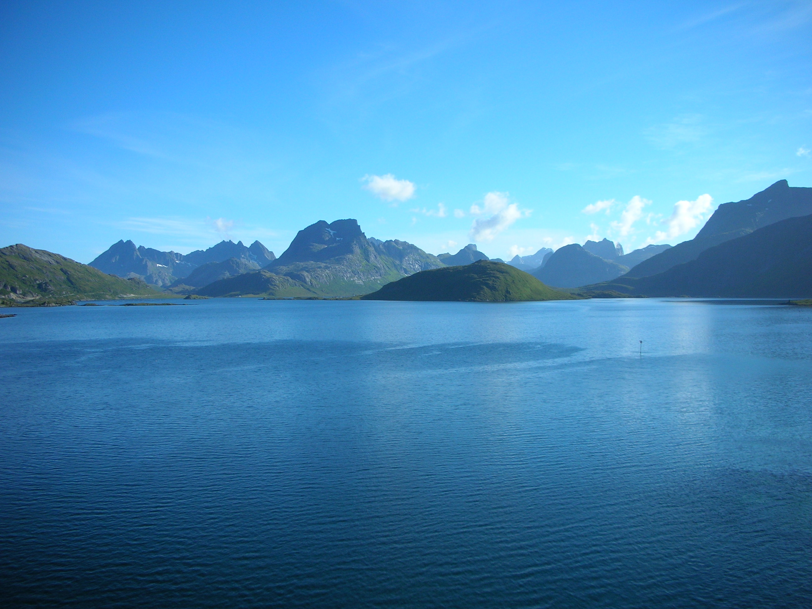 Selfjord is a fjord in the northeast of the Lofotenisland Moskenesøya. This part belongs to the municipality Flakstad